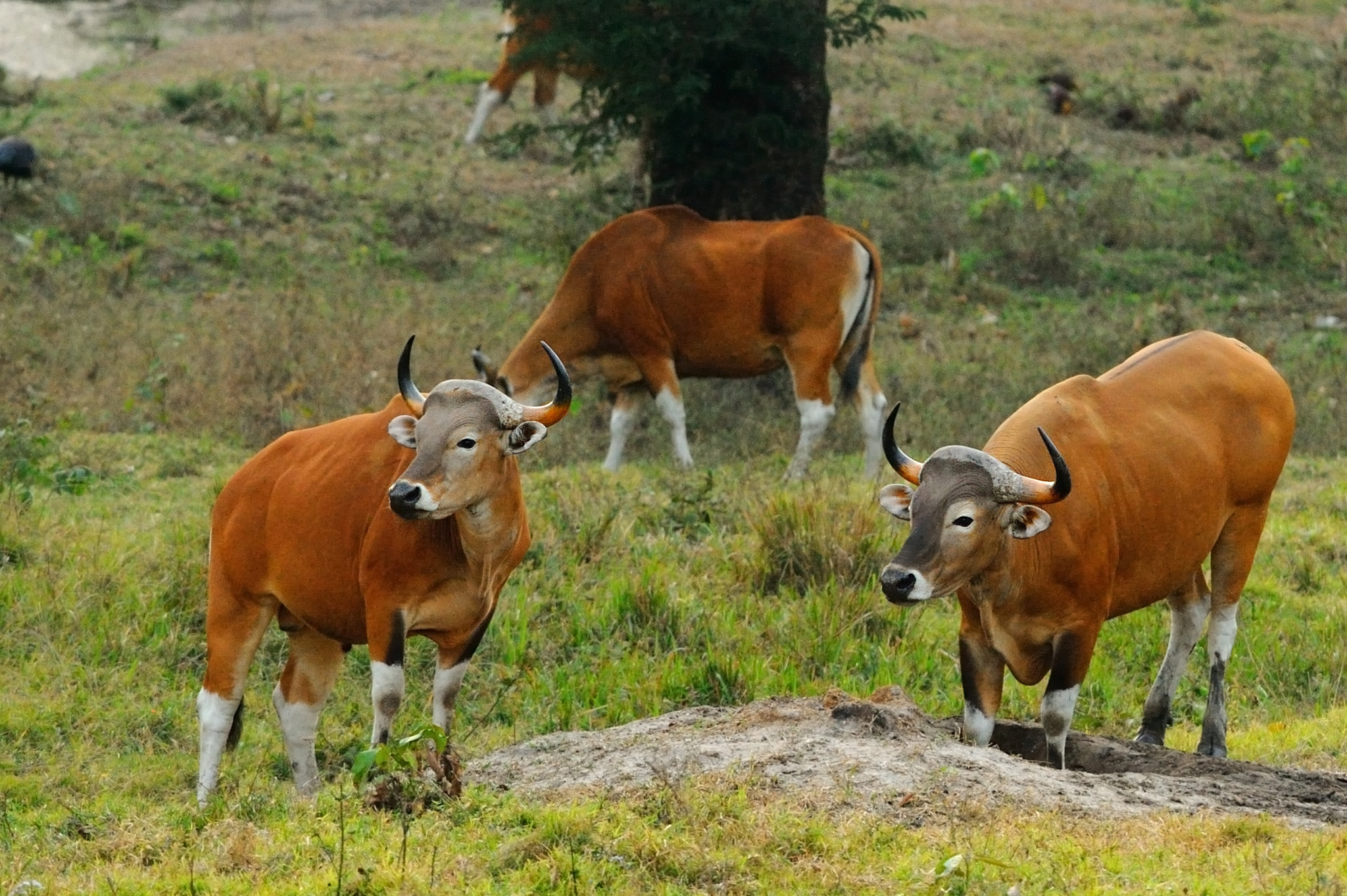 Banteng, Bos javanicus bulls at a mineral deposit in Huai Kha Khaeng WIldlife Sanctuary, Thailand. This photo is published under the Creative Commons Attribution-Share-Alike Licence. You are free to use this image, as long as it is shared with attribution under the same licence together with the appropriate credits: By: Tontan Travel Link